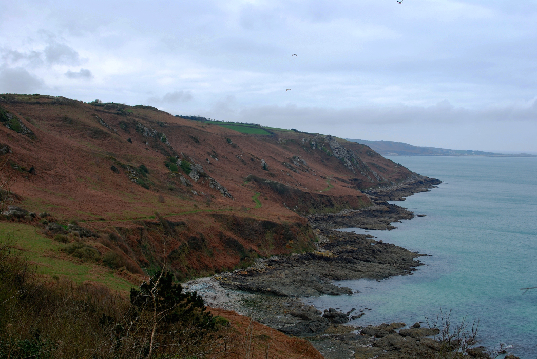 La Hague coast